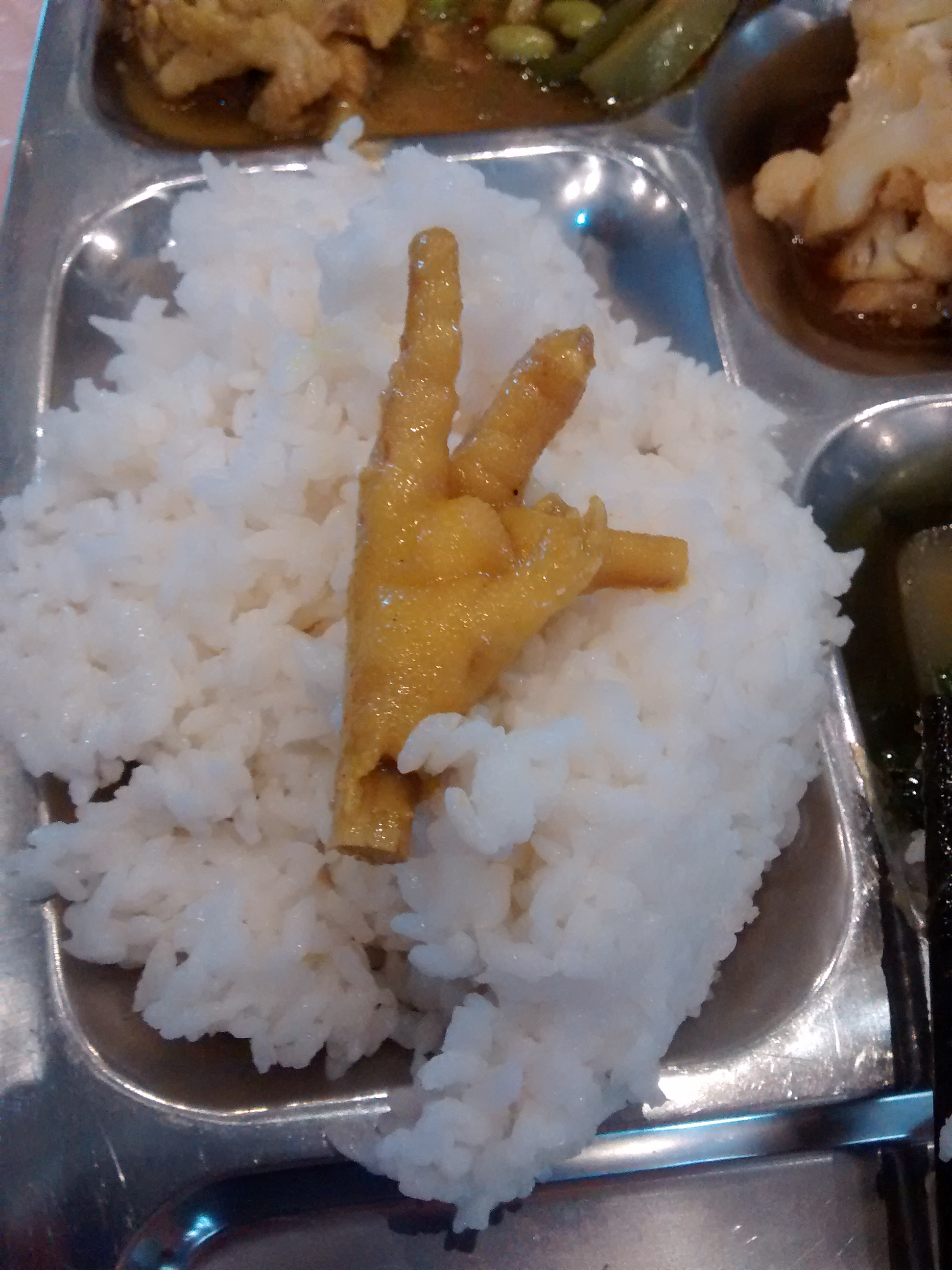 A chicken foot, served at dinner in Suzhou, China. Placed on rice for the photo.